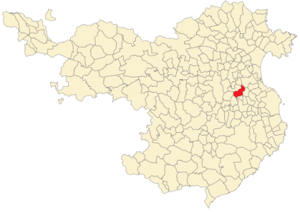 Vilopriu